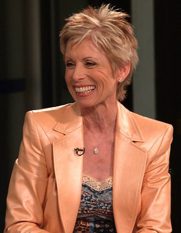 Radio counselor Dr. Laura Schlessinger Please acknowledge "Phil Konstantin" as the creator of this photograph.